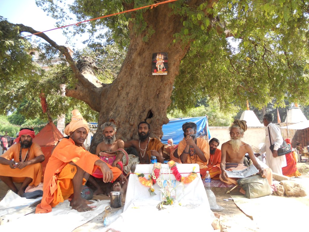 Shadhus or Saints at Girnar Parikrama.